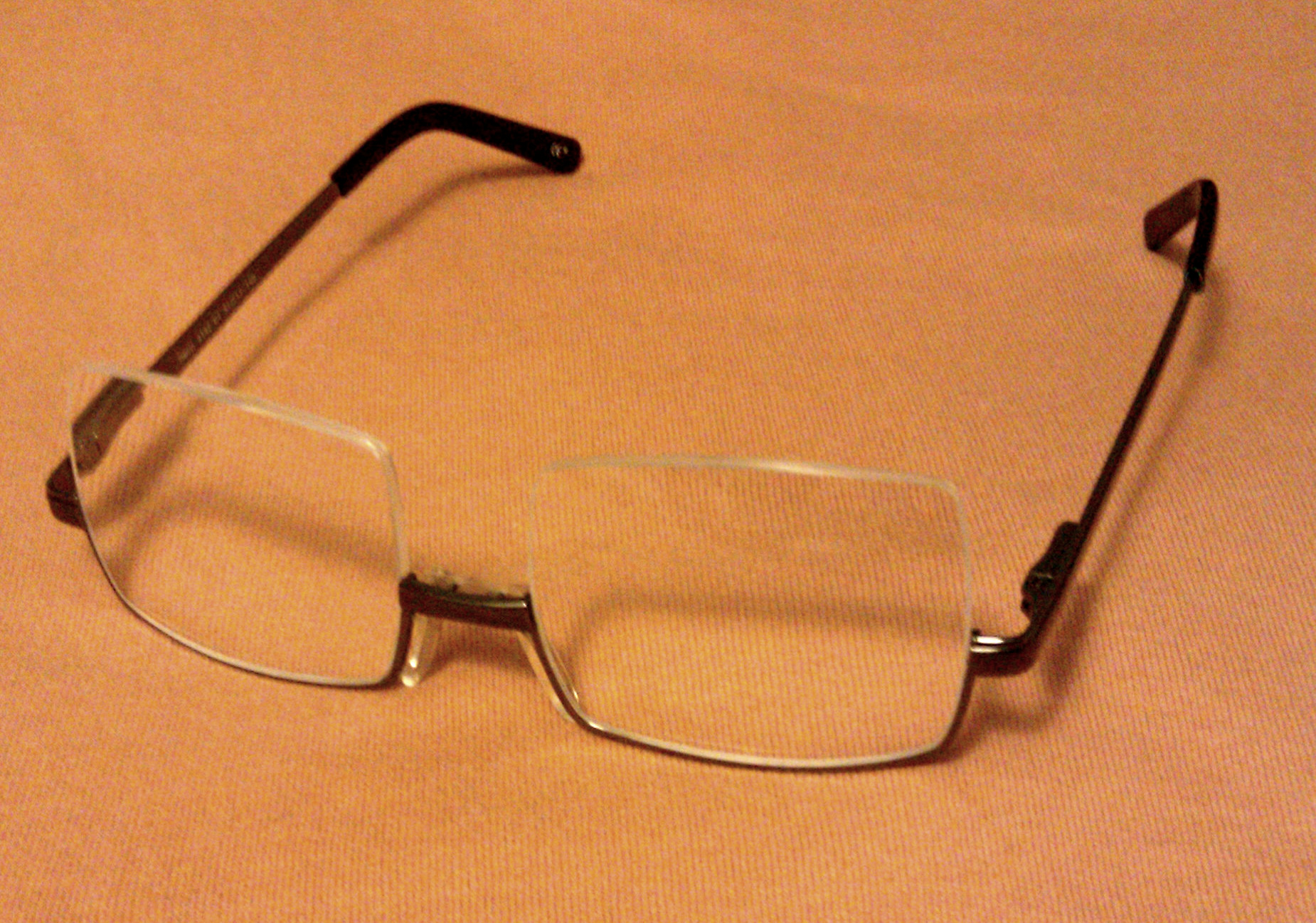 Billiards glasses (a.k.a. snooker specs, pool spectacles) - eyeglasses for cue sports. They have tall lenses, set unusually high, so that when the head is lowered over the cue stick for aiming, with the nose pointing downward, the eyes can still look through the lenses instead of over them.